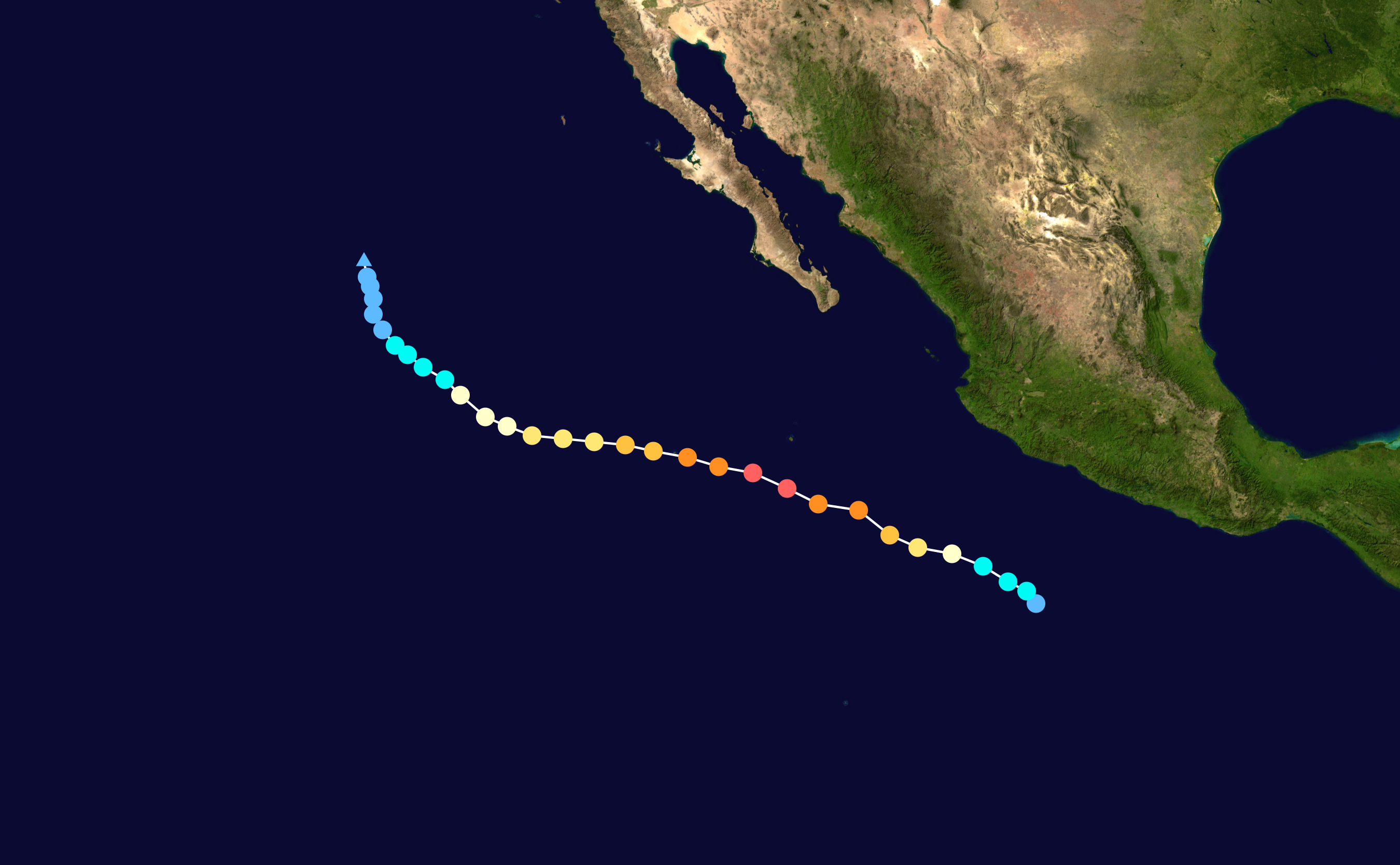 Hurricane Hernan (2002) track. Uses the color scheme from the Saffir-Simpson Hurricane Scale.